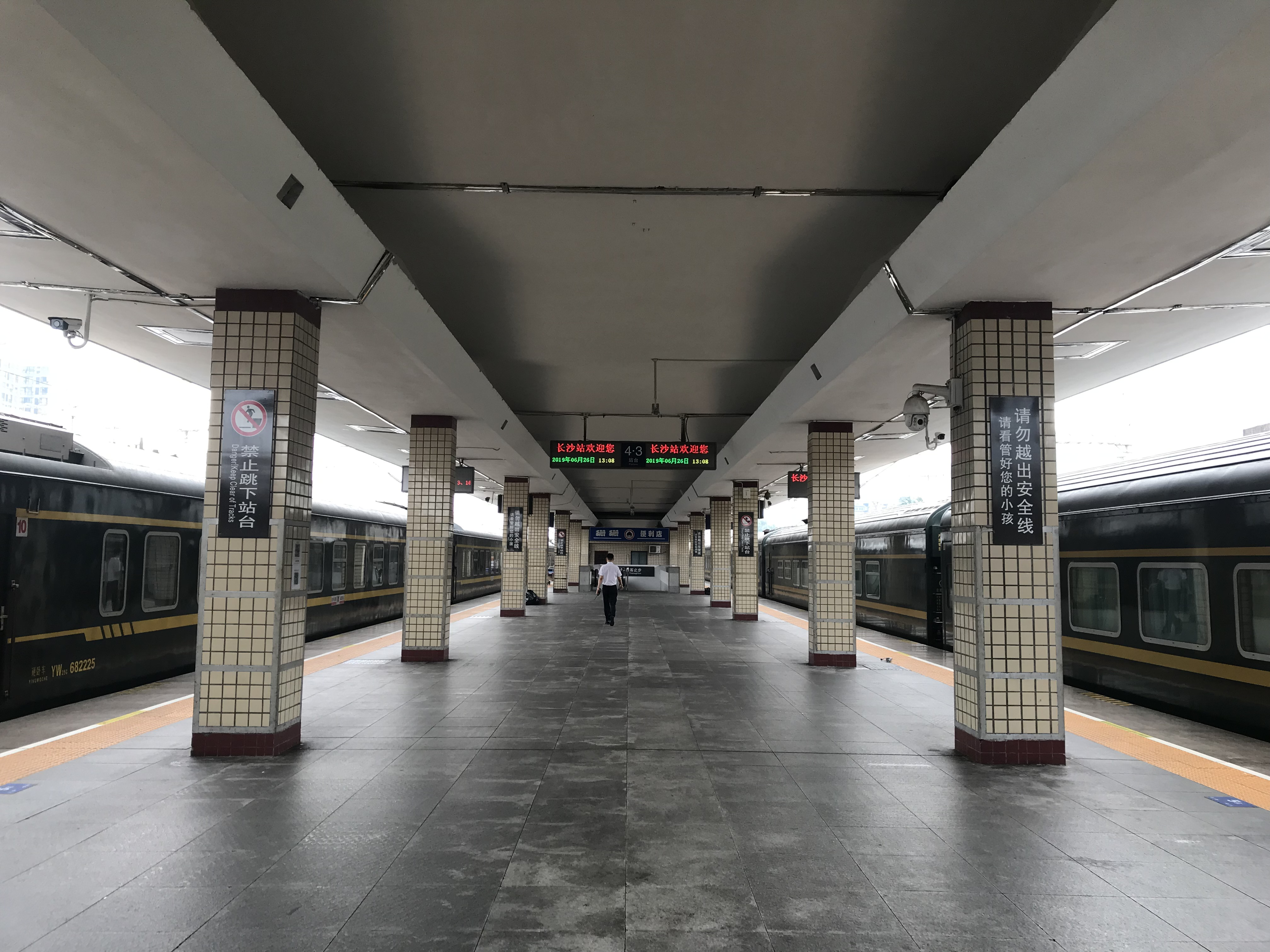 The number of platforms seems to be changed.